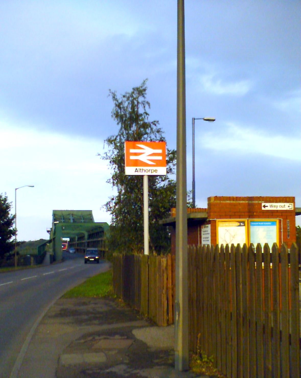 Althorpe railway station. Photo by E Asterion u talking to me?